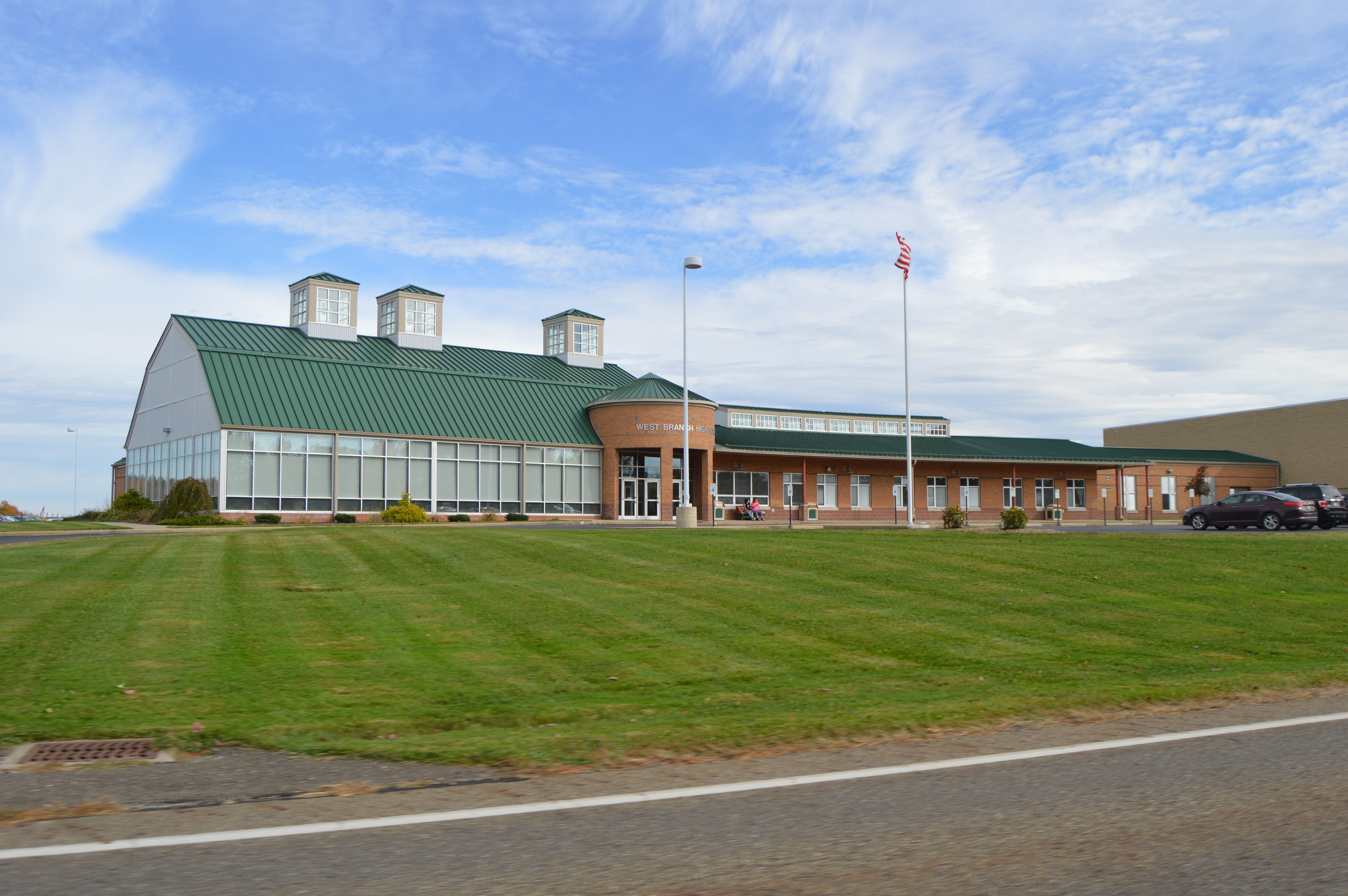 Front of West Branch High School, located at 14409 Beloit-Snodes Road in Beloit, Ohio, United States.